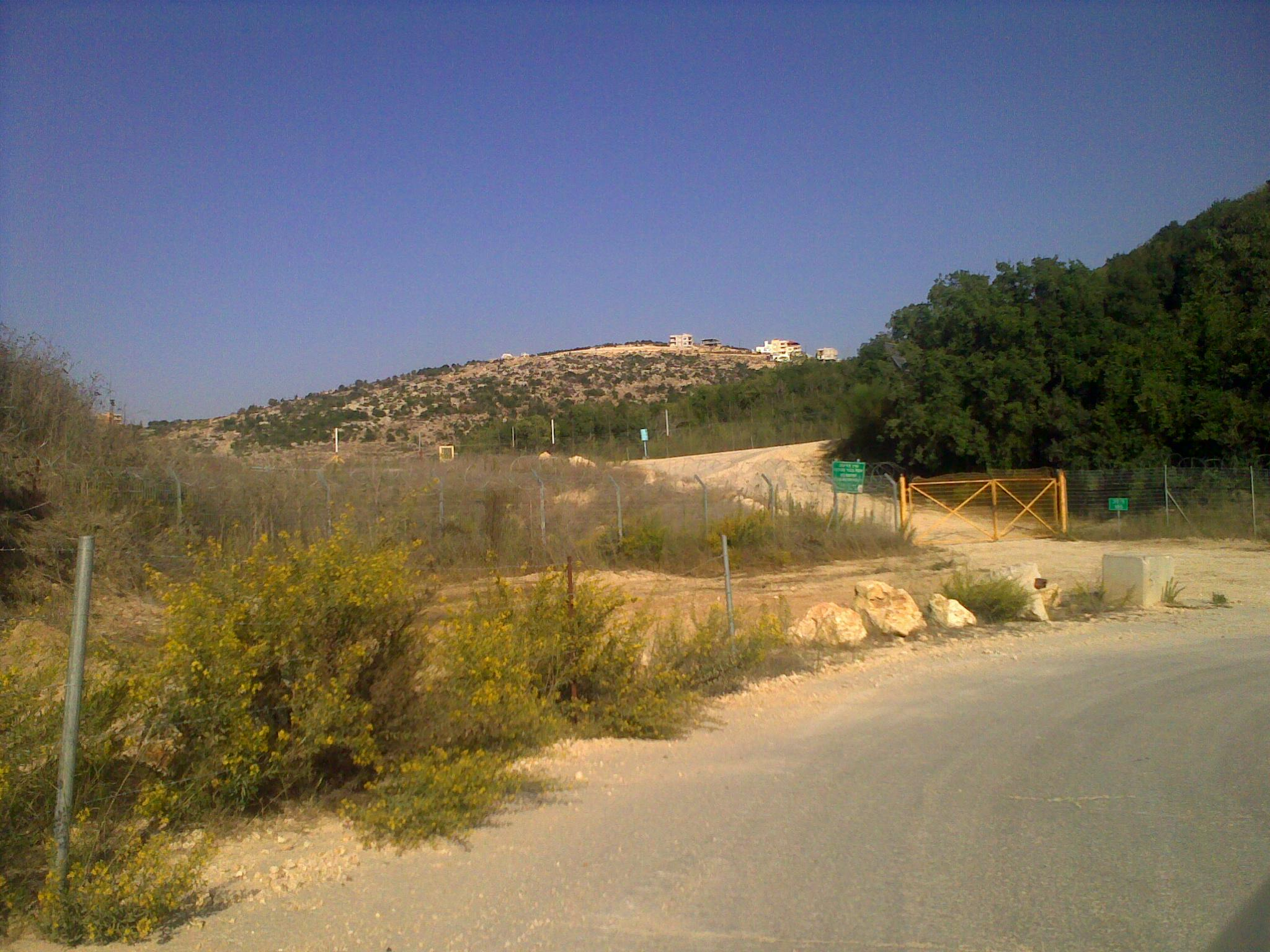 Point 105 on the Israel-Lebanon border